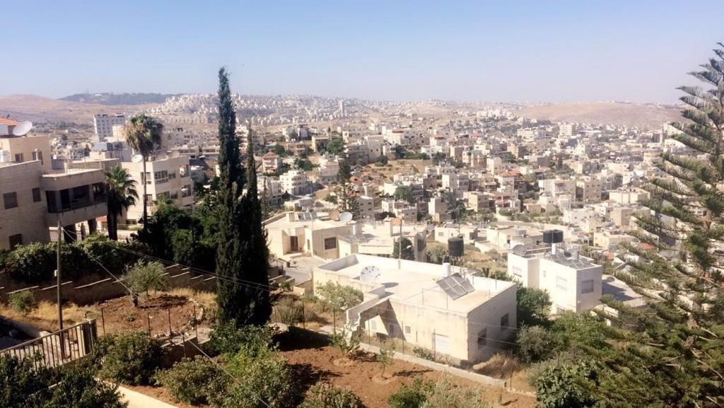 Bethlehem, Palestine